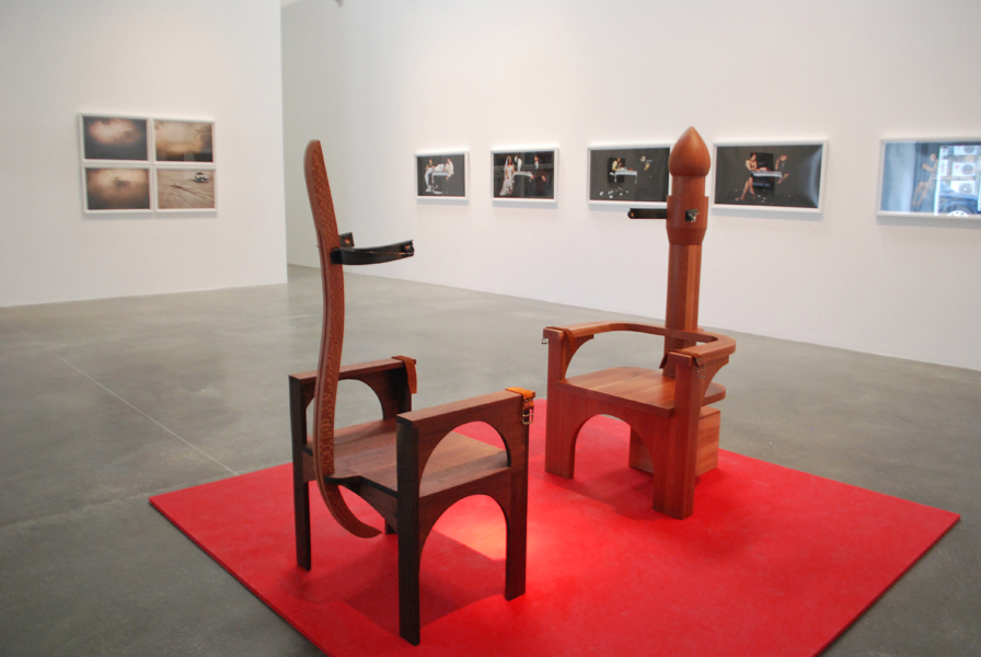 Sama Alshaibi's solo exhibition "vs. Him" in Dubai, 2011.